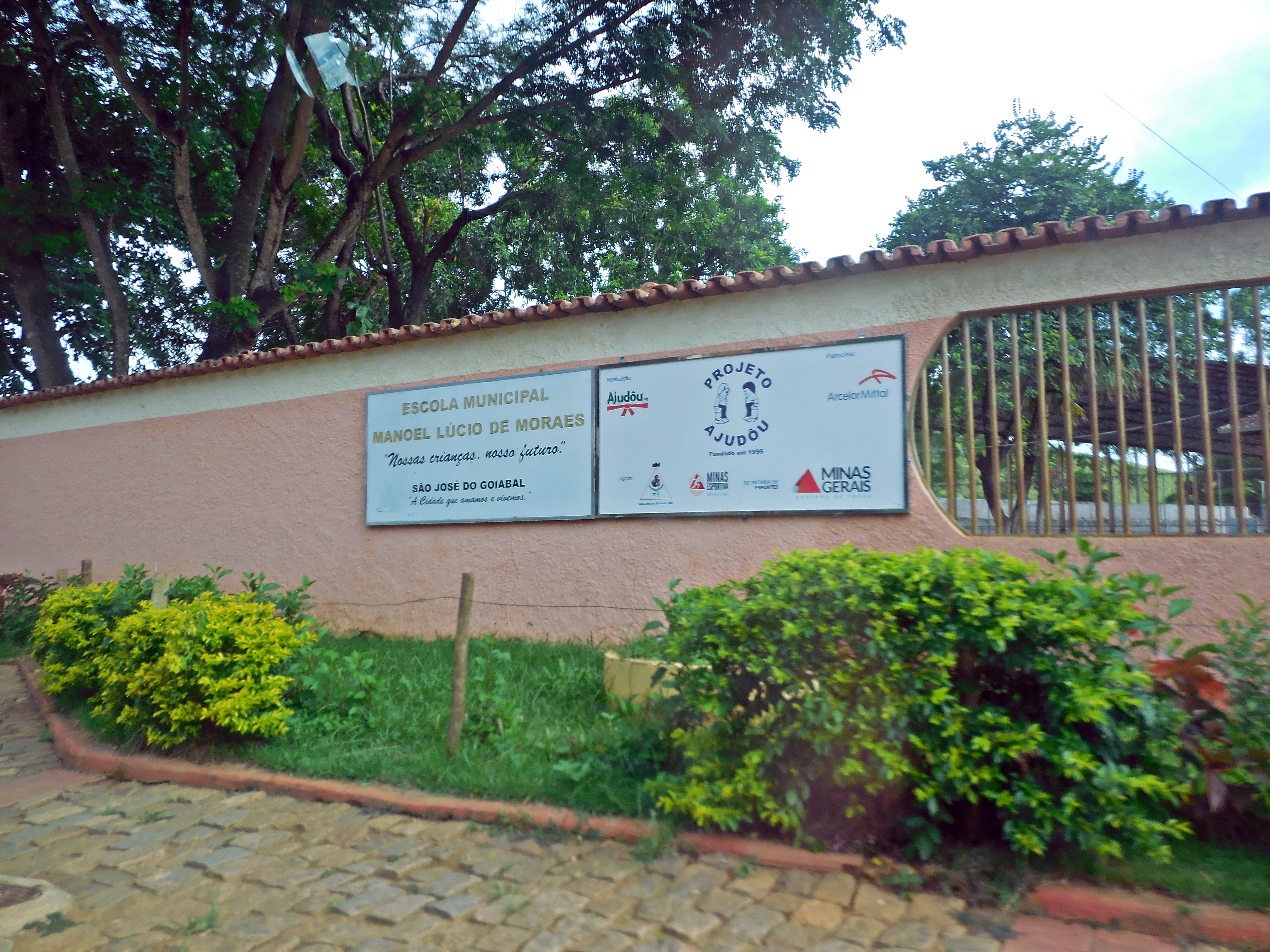 Front of the Manoel Lúcio de Moraes municipal school, in São José do Goiabal, Minas Gerais, Brazil.